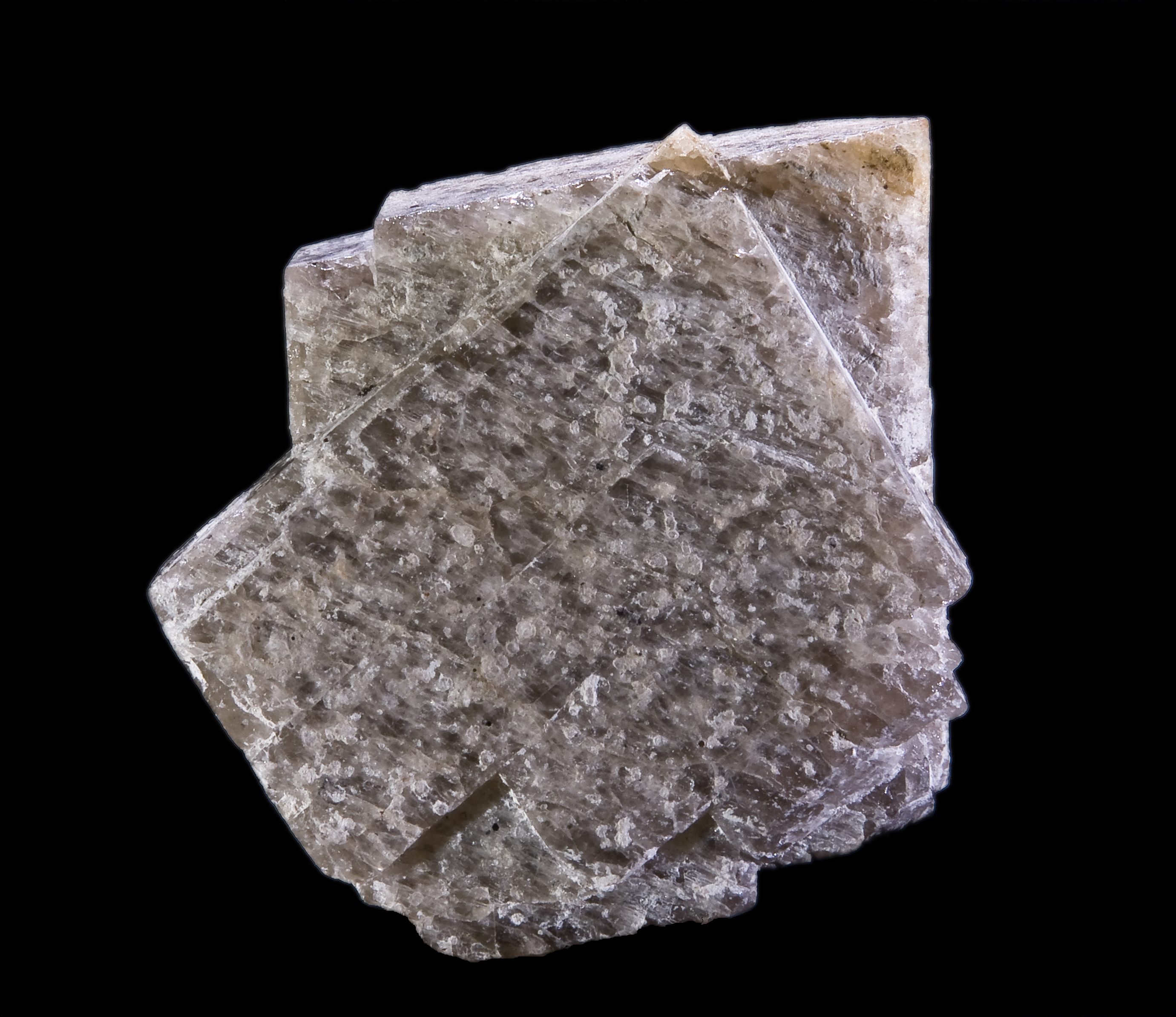 Sanidine - carlsbad-twinned Locality : Puy de Sancy, Monts-Dore massif, Puy-de-Dôme, Auvergne, France. Size : 5x4.5cm